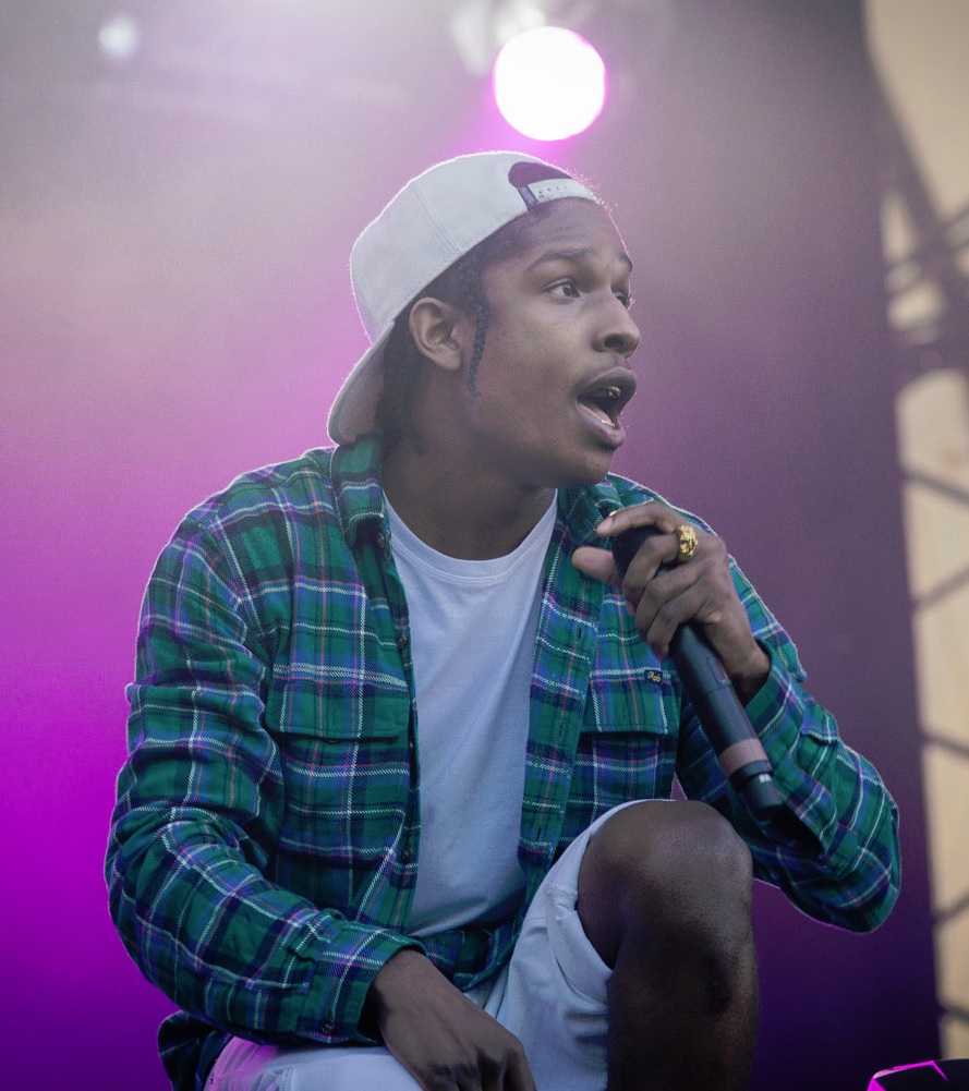 A$AP Rocky performing at Hovefestivalen 2013